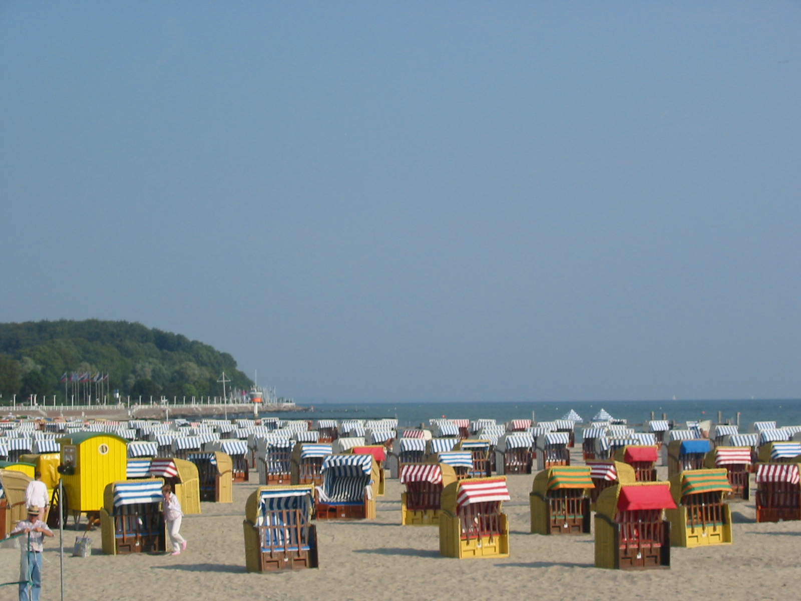 Travemünde beach. Typical beach chairs (Strandkorb) can be seen.